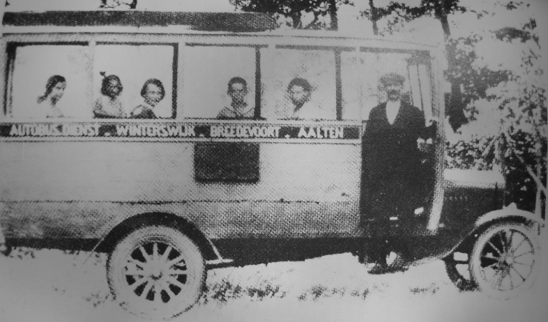 Eerste reizigersbus van Veldhuis, Aalten